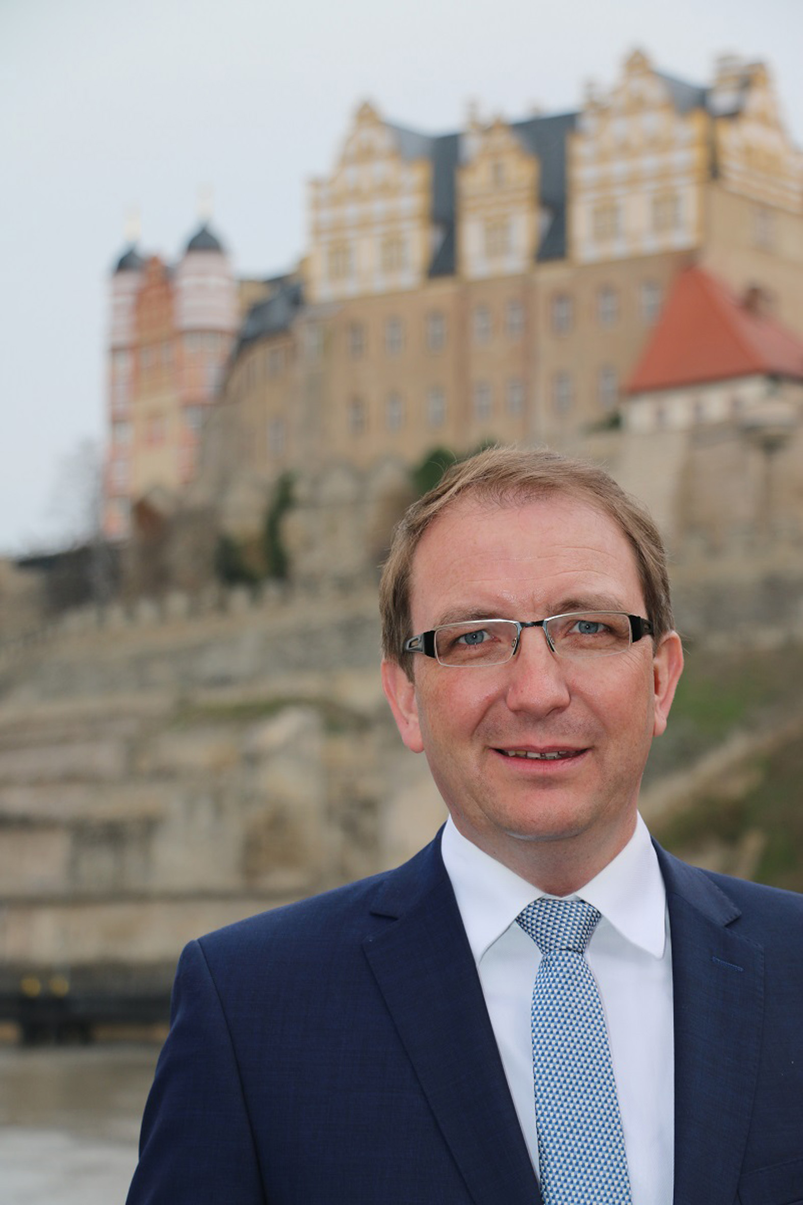 Markus Bauer in front of the Castle of Bernburg